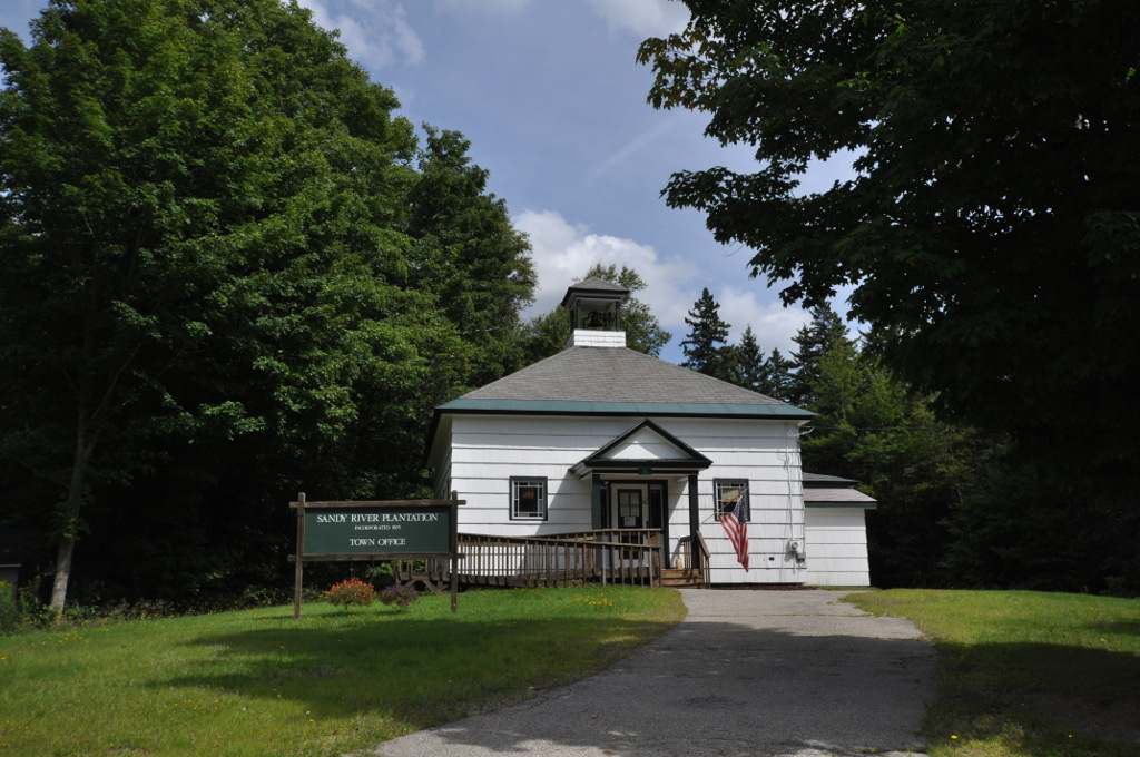 Town Hall, Sandy River Plantation, Maine.